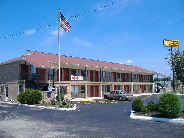 Budget Host Inn located in Winchester, Ohio.